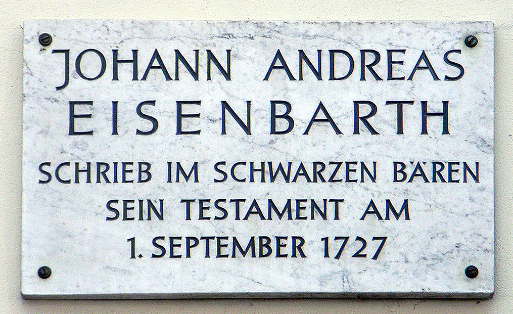 This image shows a informationsign in Göttigen.